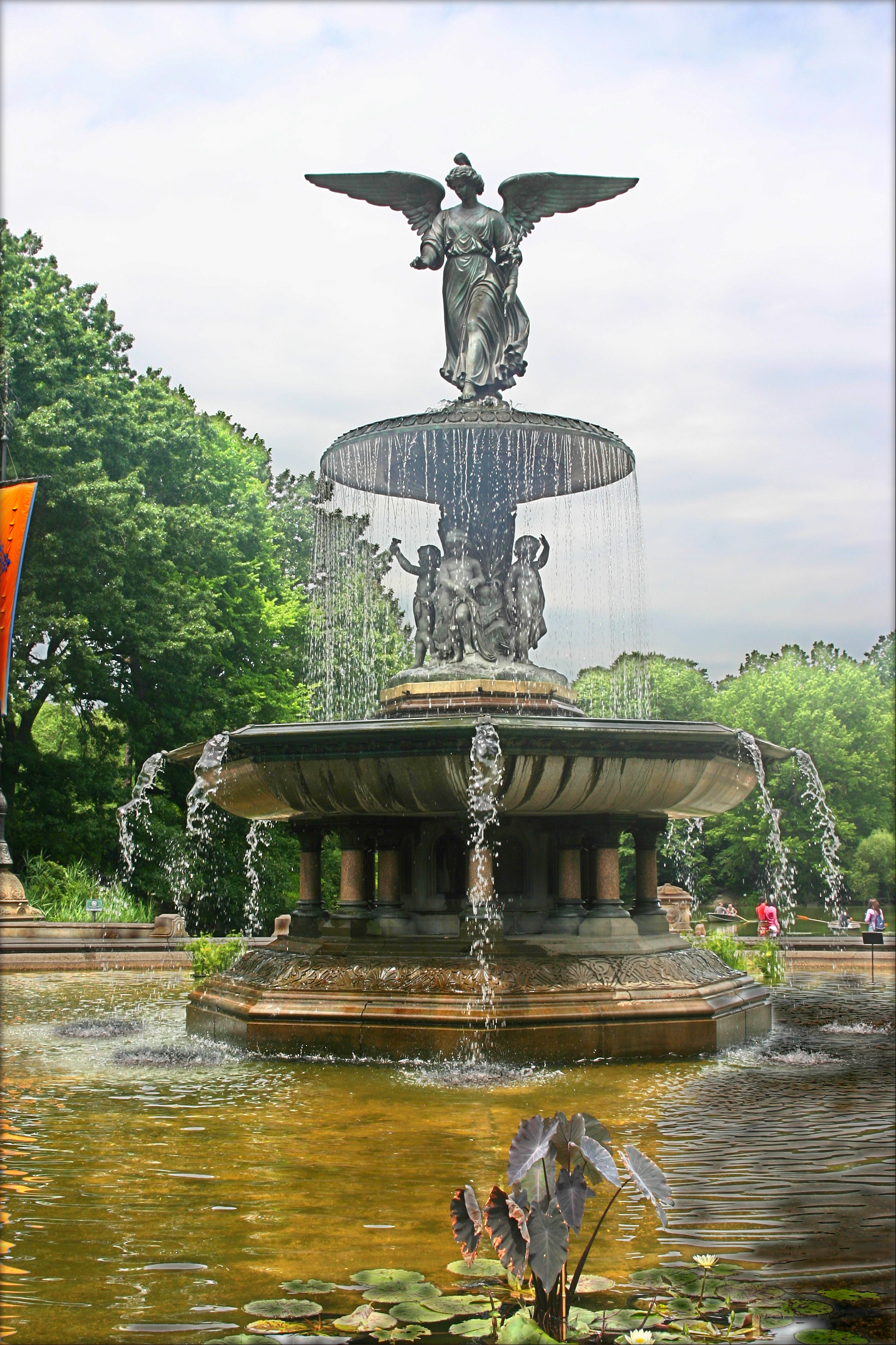 Bethesda Fountain